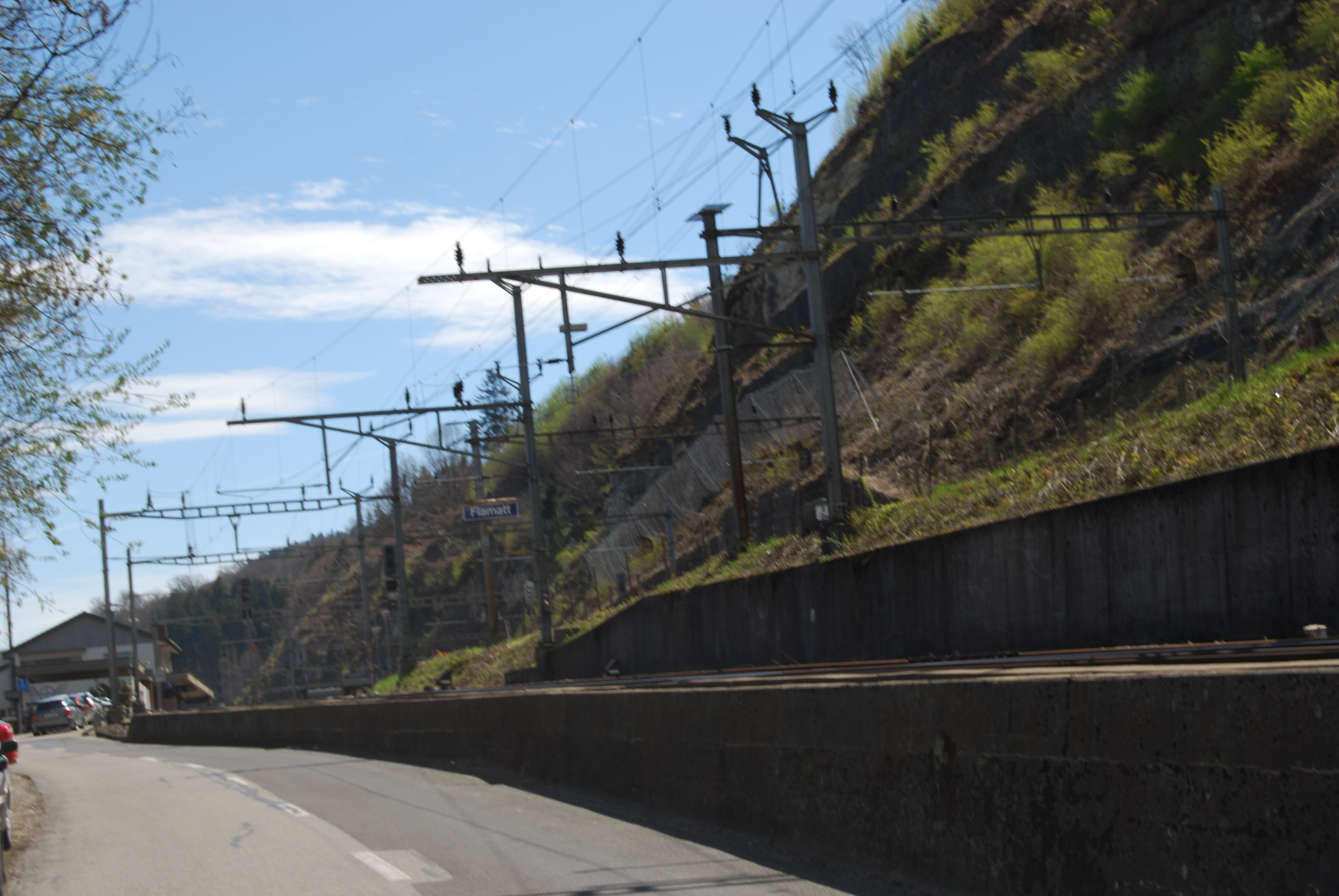 Trainstation of Flamatt, Wünnewil-Flamatt, canton of Fribourg, Switzerland